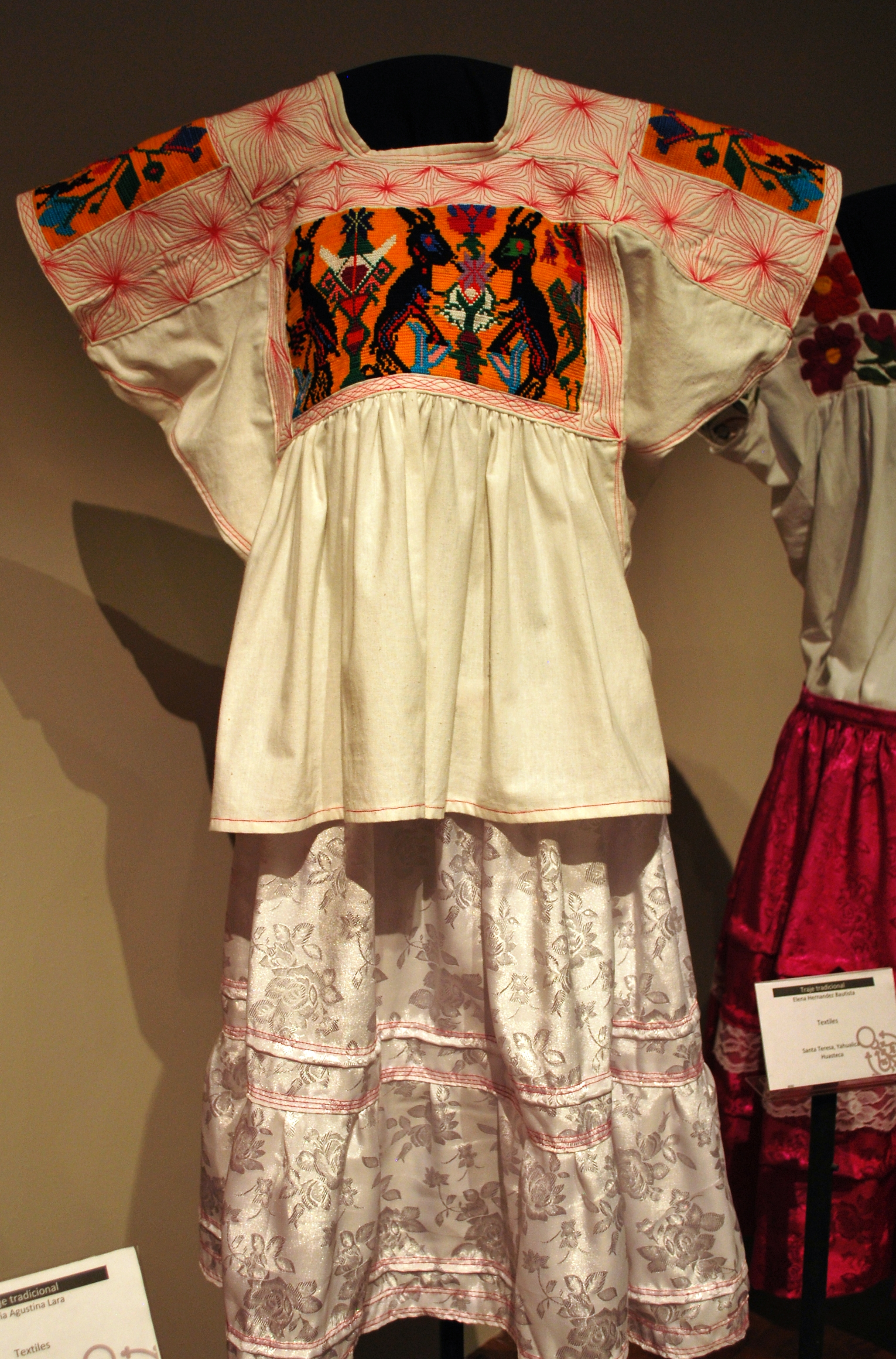 Skirt and embroidered blouse by Elena Hernandez Bautista of Santa Teresa Yahualica, Hidalgo as part of the “Hidalgo, Rituales, Usos y Creaciones” exhibit in the Museo de Arte Popular, Mexico City